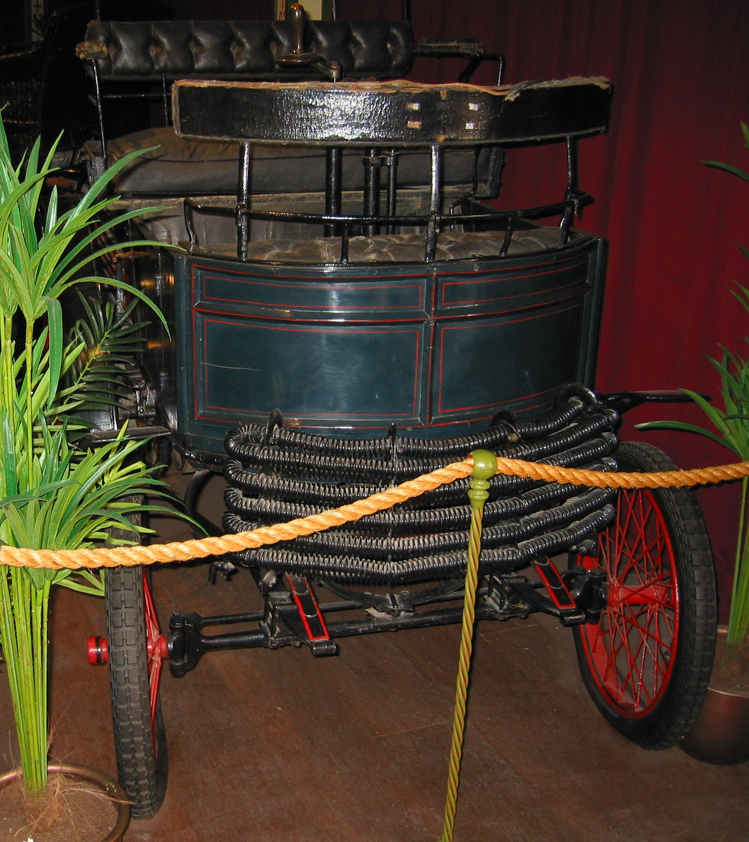 Marshall 1900 at the Streetlife Museum of Transport, Hull, East Riding of Yorkshire, England.